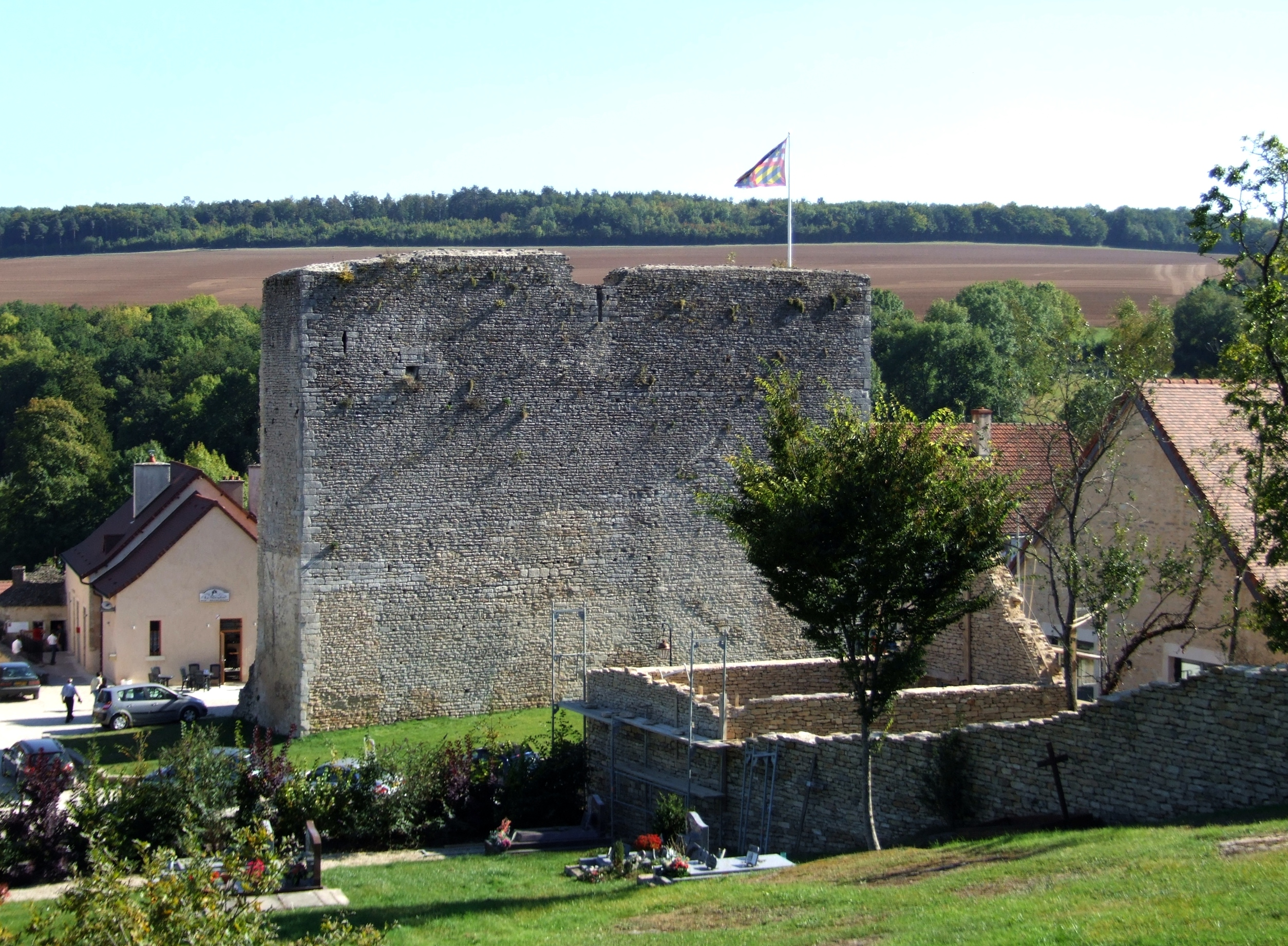 Salives, Burgundy, FRANCE